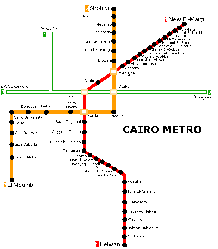 Map of the Cairo metro